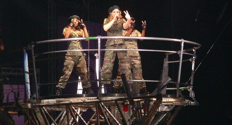 Picture taken by a fan during one of the 2004 concerts